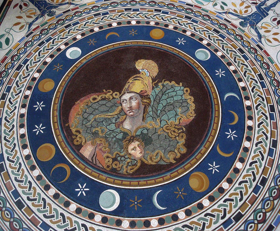 Tondo with Athena and aegis. Roman mosaic from the 3rd century CE framed with a modern mosaic from the 18th century. From Tusculum.